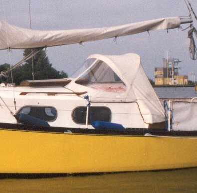 dodger on a small sailing boat